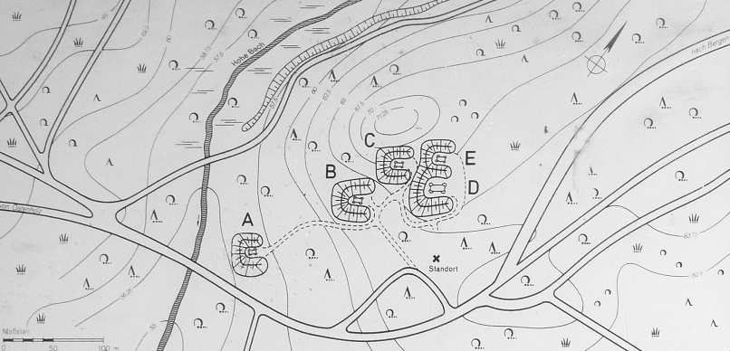 Site plan of the Sieben Steinhäuser dolmen site, a group of five dolmens on the Lüneburg Heath in the NATO training area of Bergen-Hohne, in the state of Lower Saxony in northern Germany.